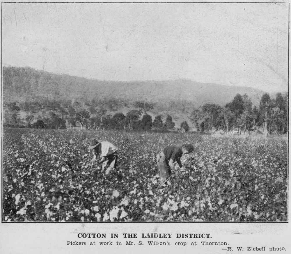 Picking cotton on S. Wilson's farm at Thornton, near Laidley